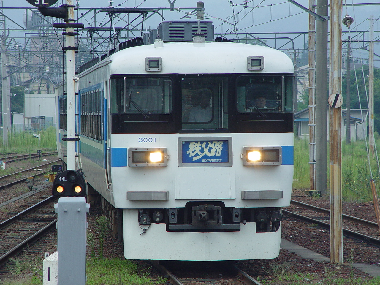 Chichibu Railway 3000 series EMU set 3001 approaching Yorii Station on an eastbound Chichibuji express service